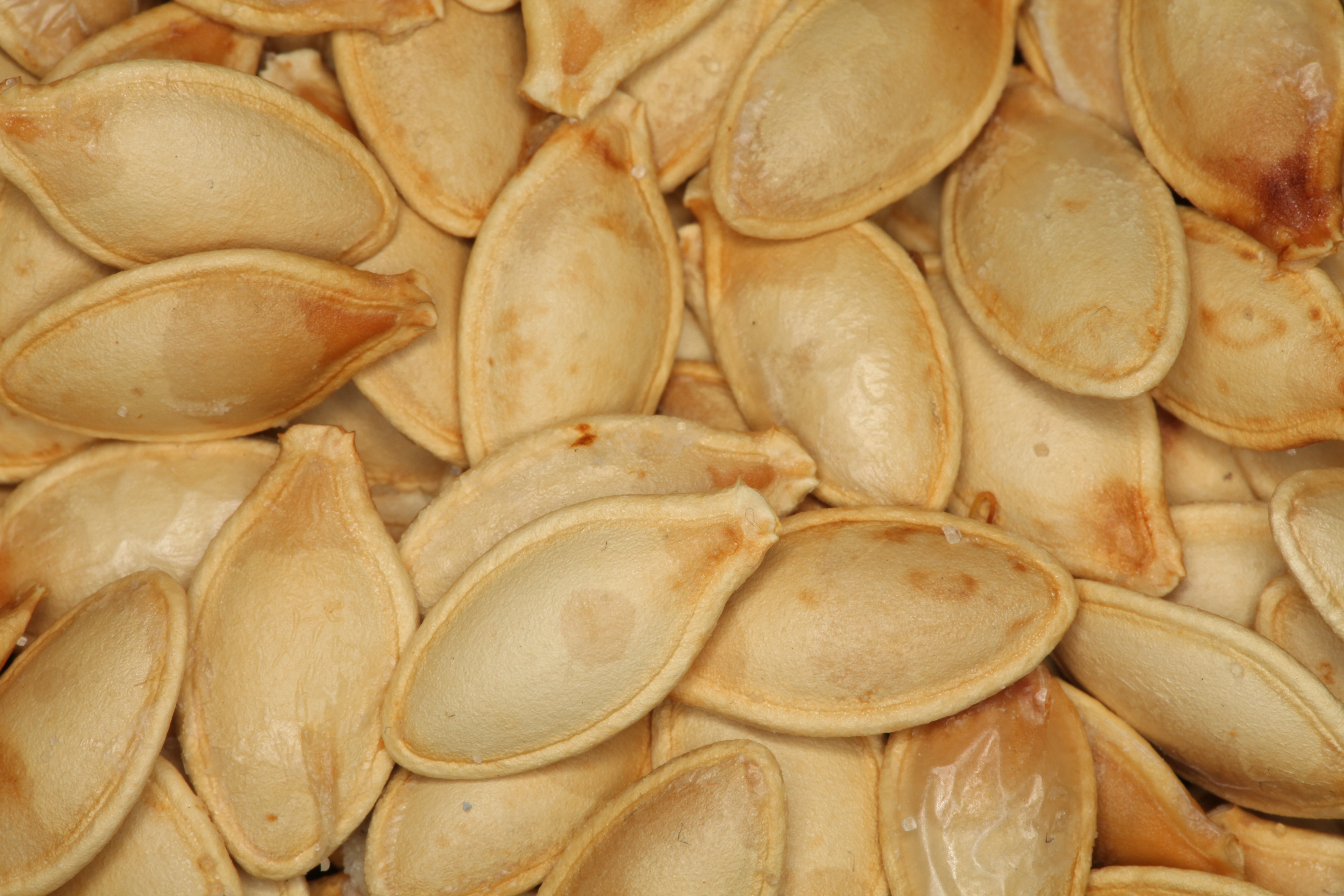 Macro photo of roasted pumpkin seeds